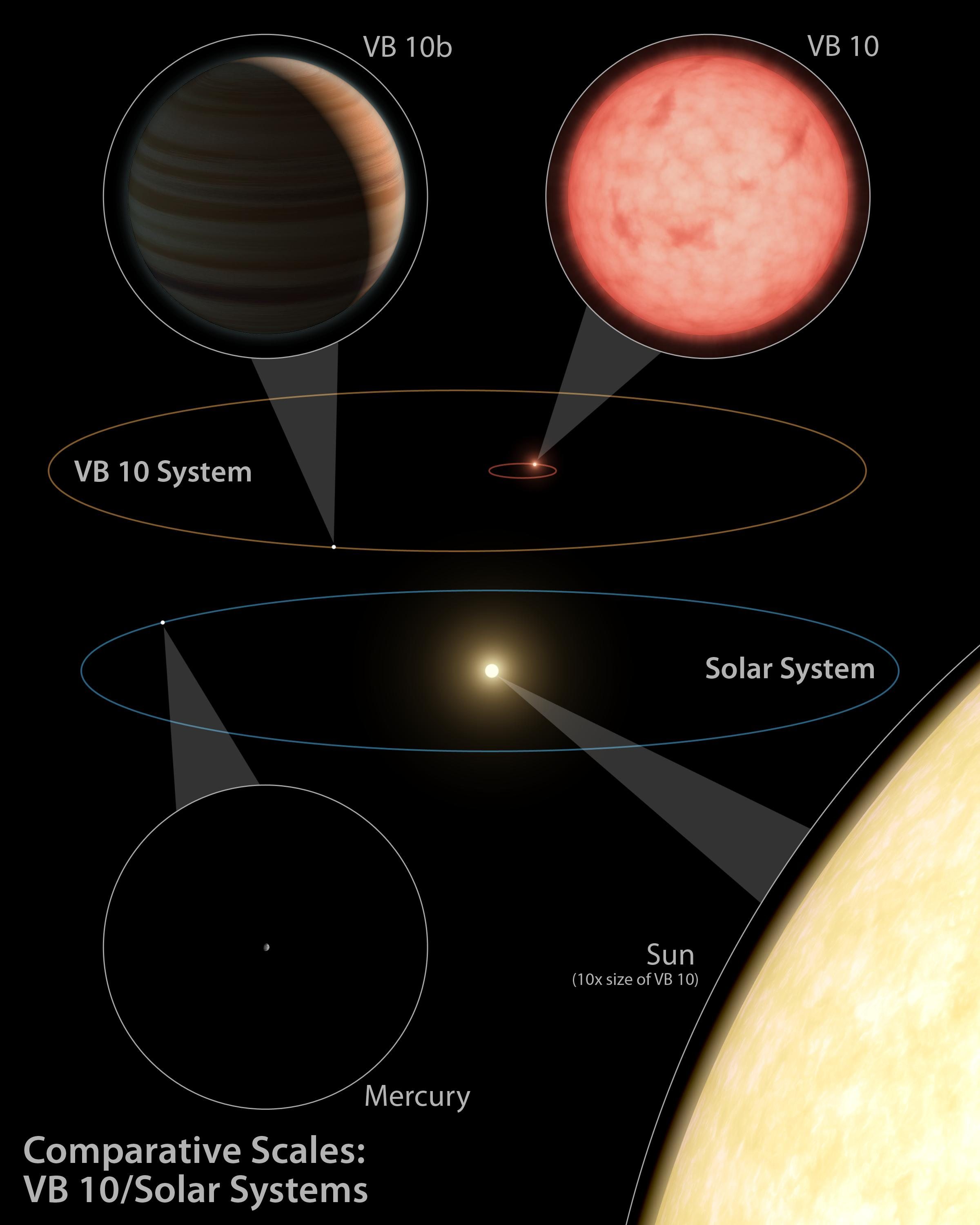 Artist's diagram compares the size of our solar system to the VB 10 star system. The VB 10 system is essentially a shrunken version of our solar system. Even though its planet is at a similar distance from its star as Mercury is from our sun, it wouldn't receive as much heat and would be classified as a "cold Jupiter" similar to our own. If any rocky planets do orbit in the VB 10 system, they would be located even closer in than VB 10b, and could lie within the star's habitable zone -- a region where temperatures are right for water to be liquid.